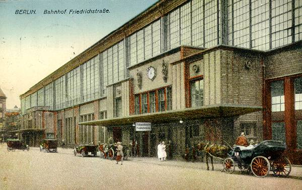 postcard of the station Friedrichstraße in Berlin, south side